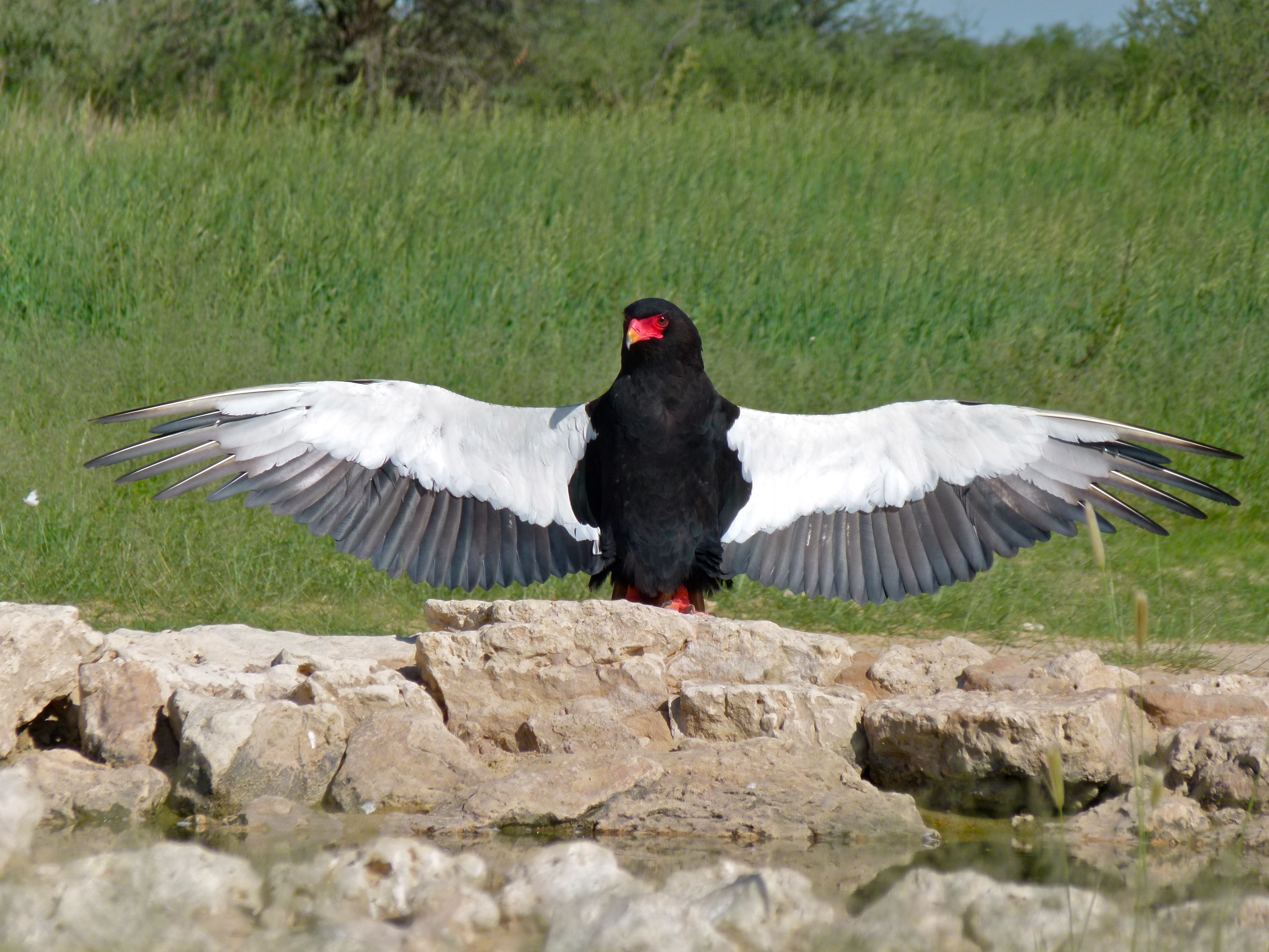 Cubitje Quap Waterhole, Kgalagadi Transfrontier Park, SOUTH AFRICA